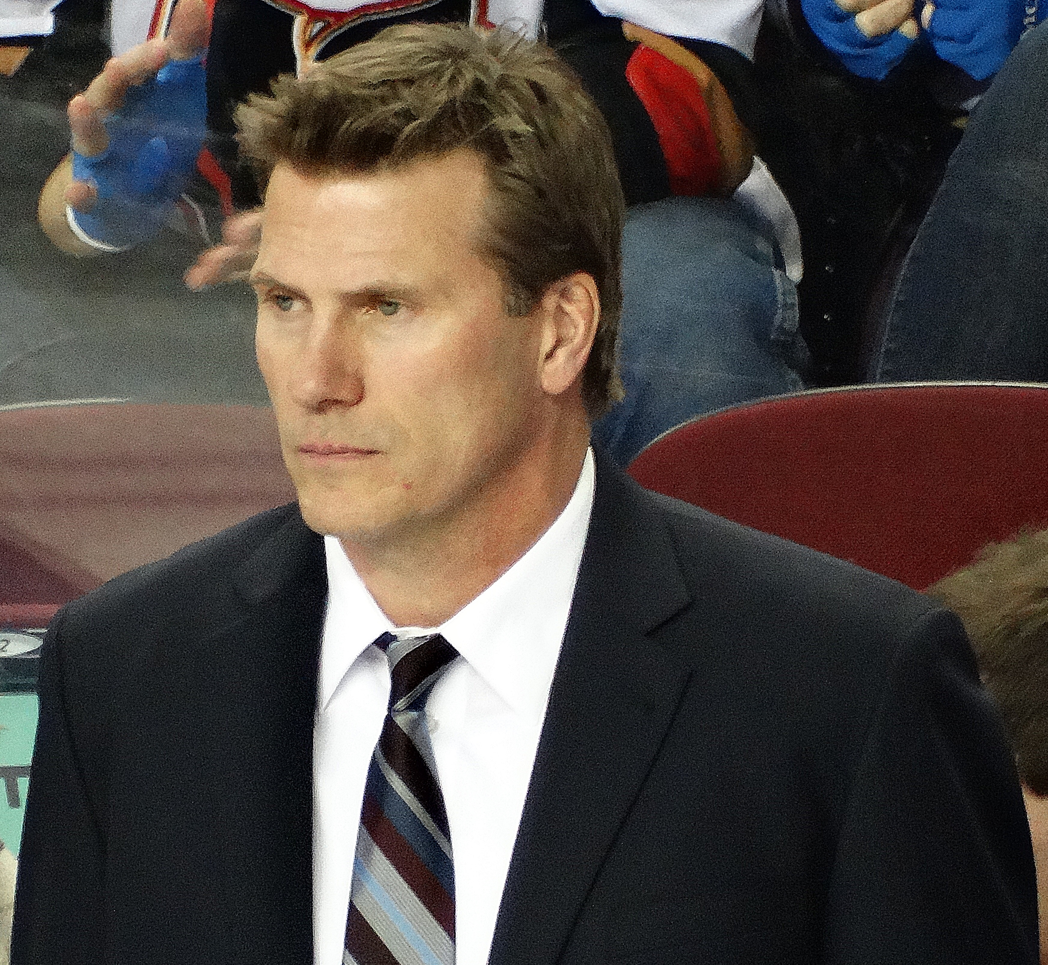 Joel Otto, Canadian ice hockey manager at the CHL / NHL Top Prospects Game